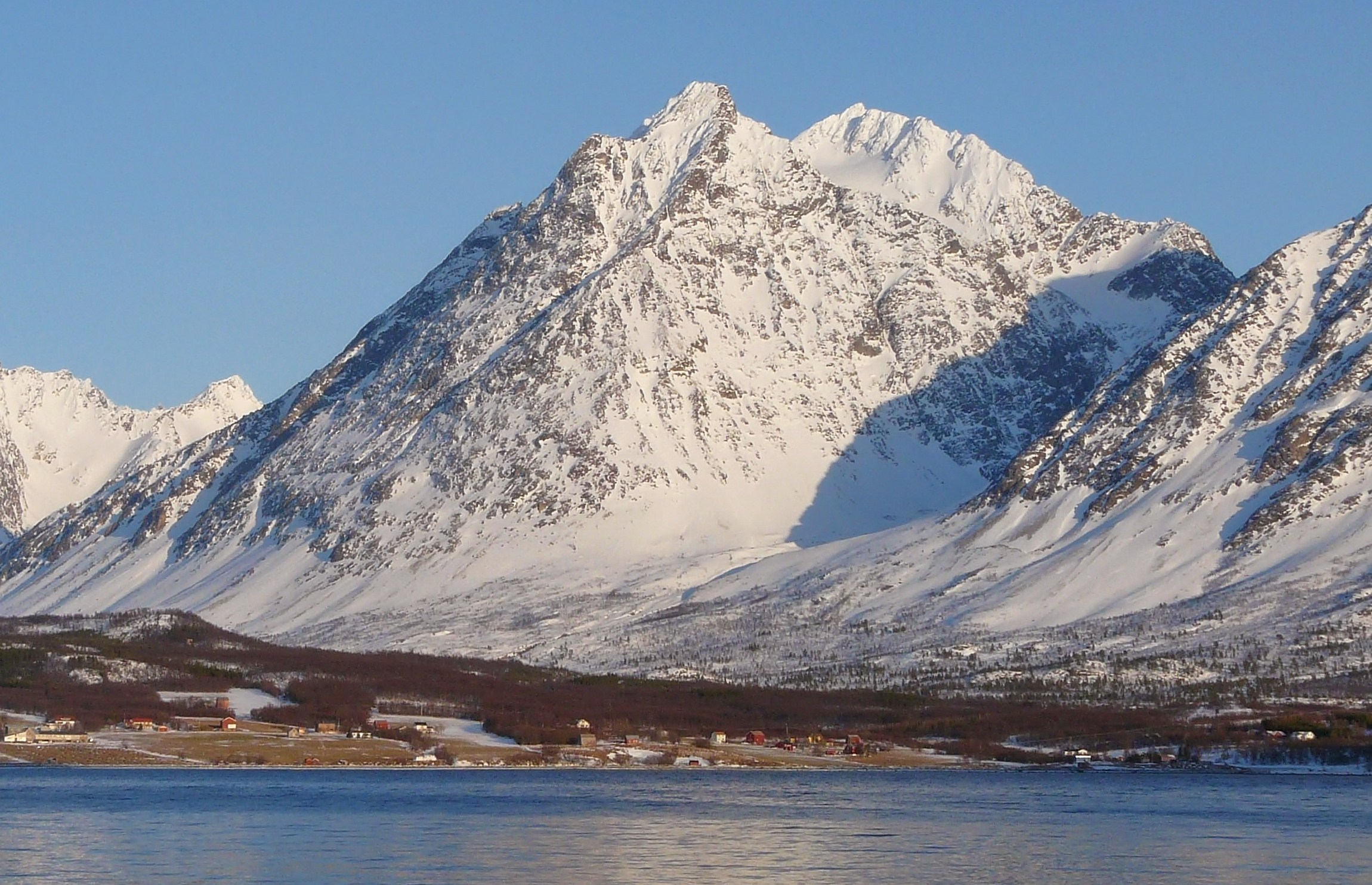 The southface of Trollvasstinden (1,440 m) as seen from the Fylkesvei 293 road by the southern coast of Kjosen in 2009 February.